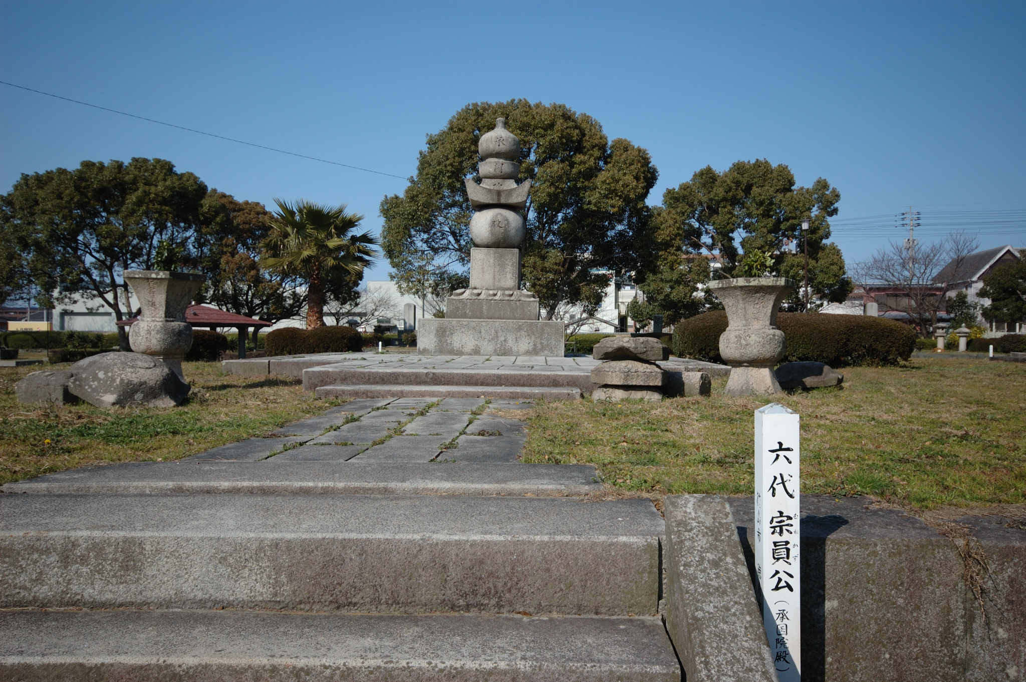 grave of Hachisuka Munekazu(the sixth feudal lord)